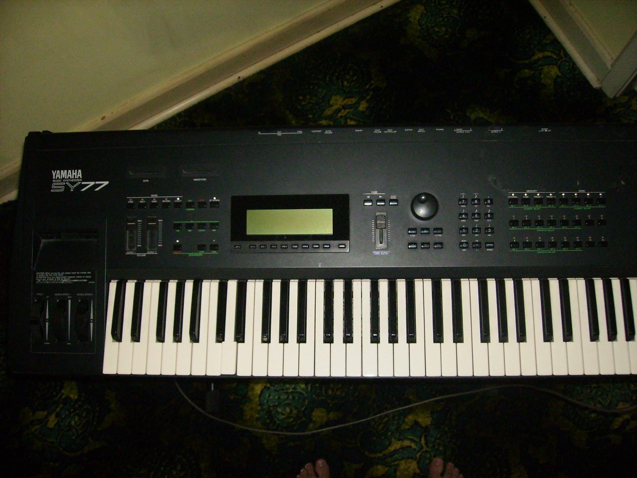 Yamaha SY77